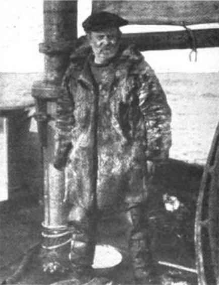 Bally Thompson was an Estonian sea captain and trader of Scottish ancestry. He was owner and captain of the schooner Trader of Petropavlovsk and maintained a trading station at Emma Harbor (Provideniya Bay), Chukotka, Russia from some time before 1914 until at least 1921.